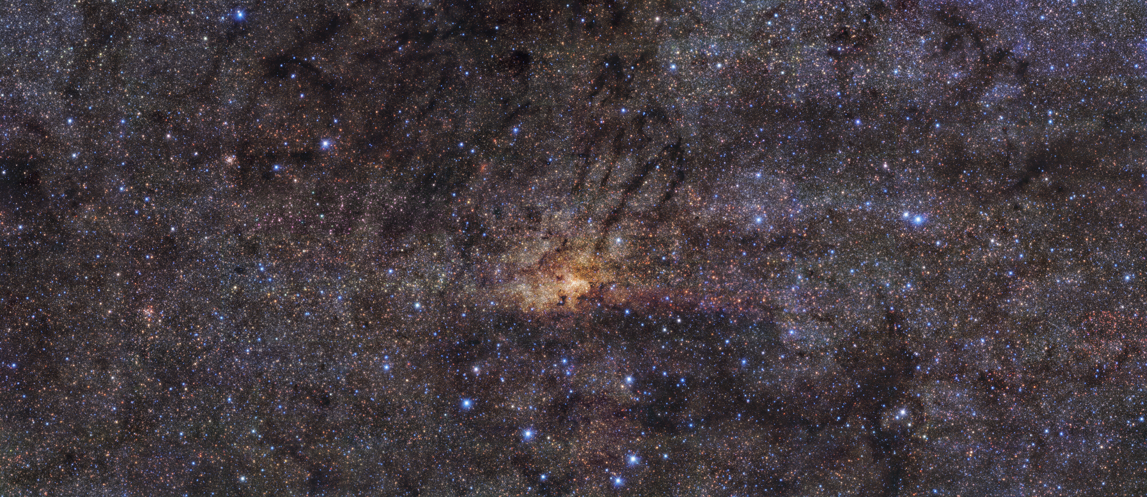 Taken with the HAWK-I instrument on ESO's Very Large Telescope in the Chilean Atacama Desert, this stunning image shows the Milky Way's central region with an angular resolution of 0.2 arcseconds. This means the level of detail picked up by HAWK-I is roughly equivalent to seeing a football (soccer ball) in Zurich from Munich, where ESO's headquarters are located. The image combines observations in three different wavelength bands. The team used the broadband filters J (centred at 1250 nanometres, in blue), H (centred at 1635 nanometres, in green), and Ks (centred at 2150 nanometres, in red), to cover the near infrared region of the electromagnetic spectrum. By observing in this range of wavelengths, HAWK-I can peer through the dust, allowing it to see certain stars in the central region of our galaxy that would otherwise be hidden.